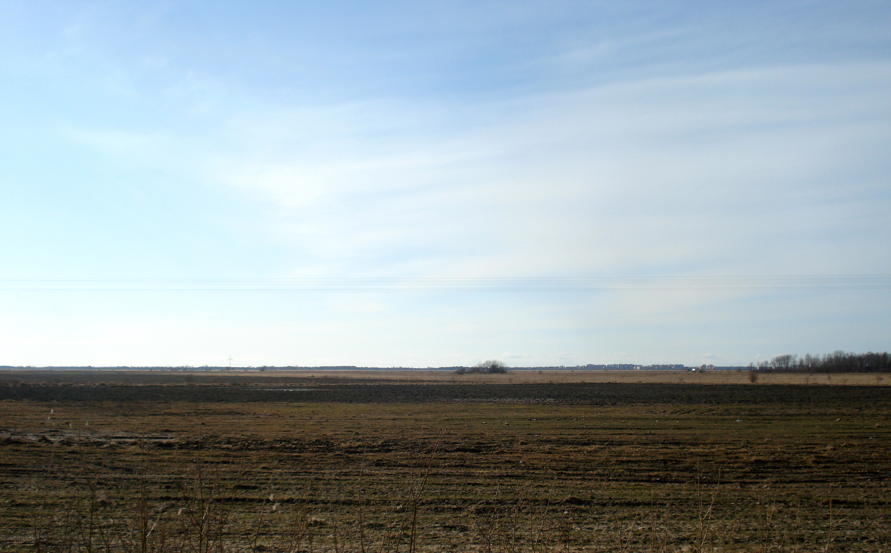 City